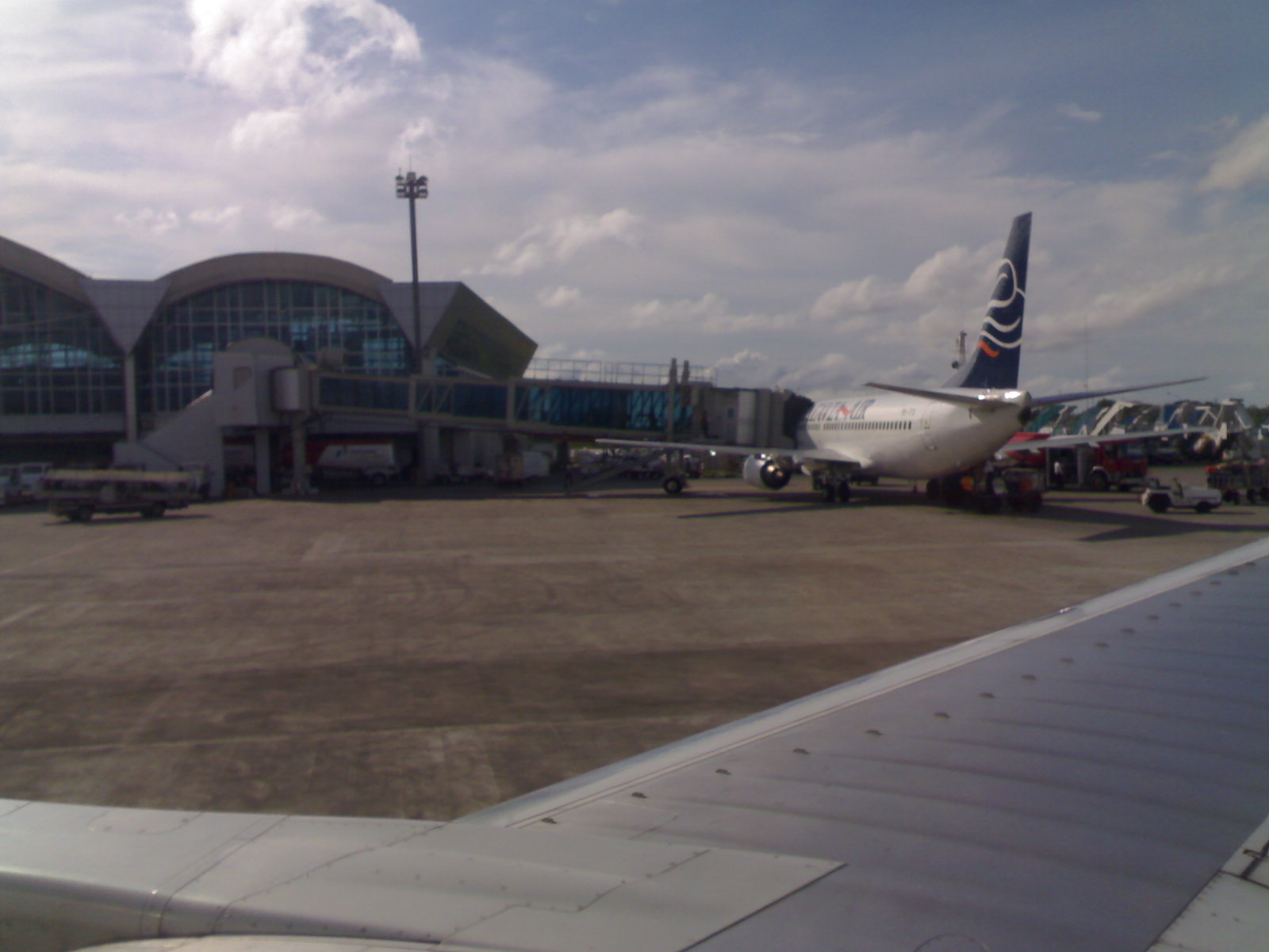 Sultan Hasanuddin International Airport of Makassar